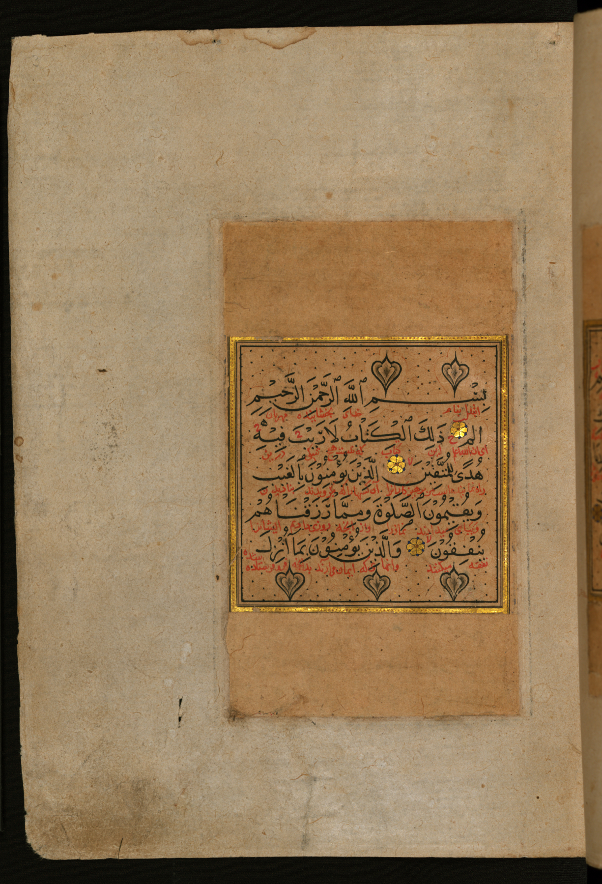 This text folio page from Walters manuscript W.559 is the beginning of Surat al-baqarah. The black Naskh is the Qur'anic text and the text in red is the interlinear Persian translation.